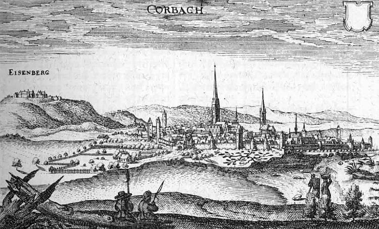 This is a scan of the historical document: Title: Korbach - Topographia Hassiae language: german